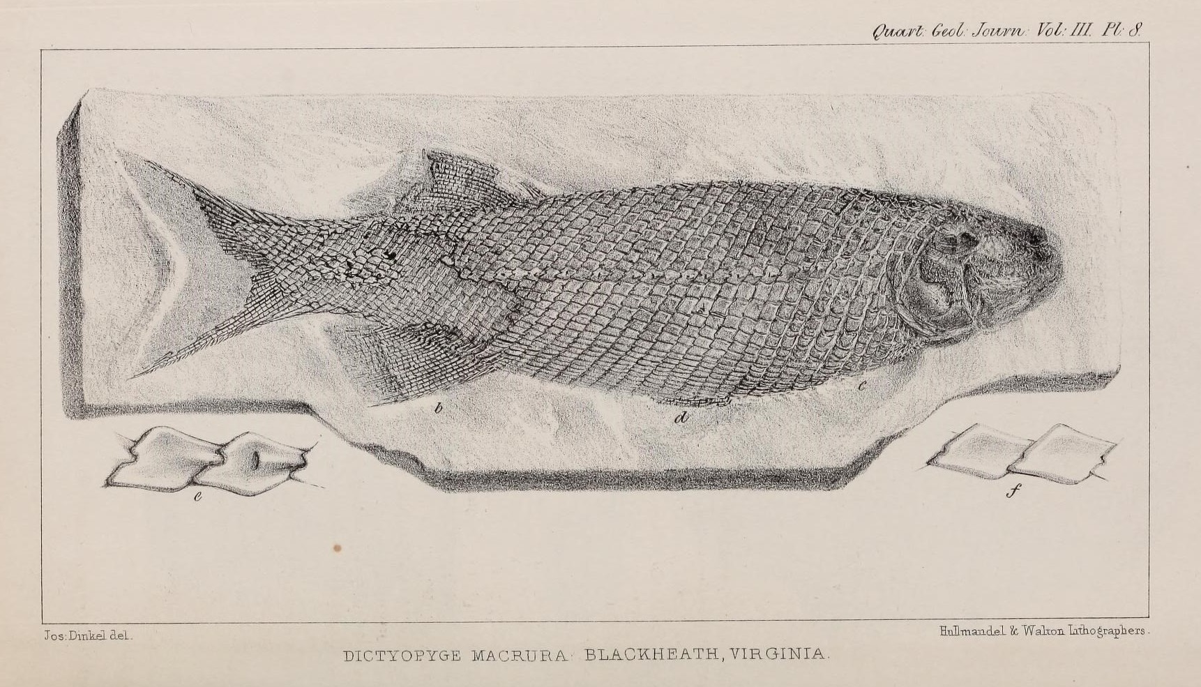 Original plate description: Figure of Dictyopyge macrura, size of nature, from the oolitic coalfield of Eastern Virginia. This specimen was obtained from the Blackheath mines in Chesterfield county, Virginia, None of the parts here represented have been restored. See p. 275. The anal fin, which is not so perfect as in some other specimens from the same region. A faint impression of the pectoral fin. Part of the ventral fin and an impression of the remainder. Scale from the lateral line. Shape of the scales from immediately above and immediately below the lateral line. See p. 276. Additional note: The term ‘oolitic’ here does not refer to the lithology of the beds of the coalfield but is a former time-stratigraphic term that was used to classify beds of Jurassic age by Lyell and his contemporaries.